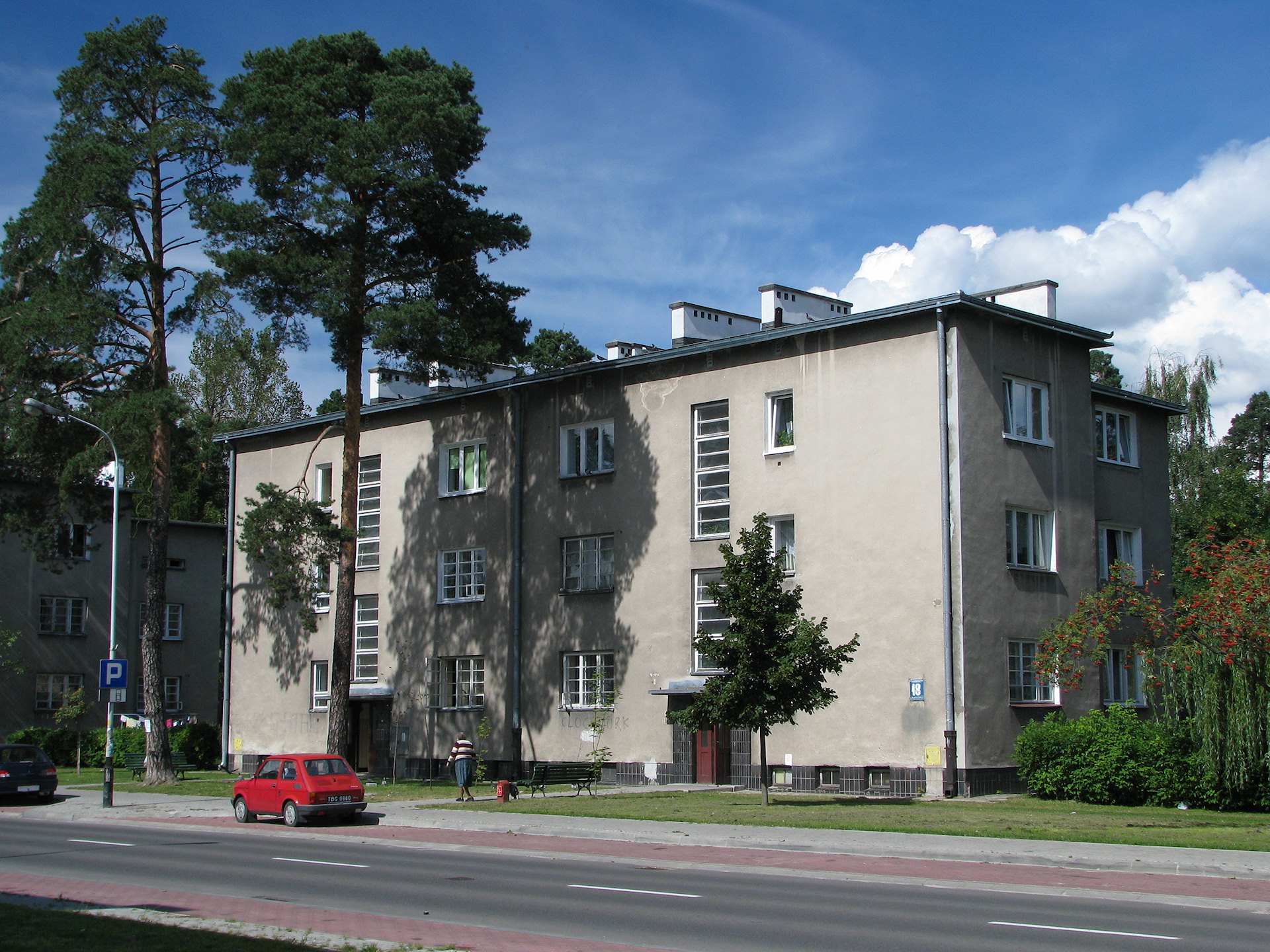 One of the old blocks for labour force still has the original staircase windows (and most of the other windows original too). The street is named after the victims of 1940 Katyń massacre.